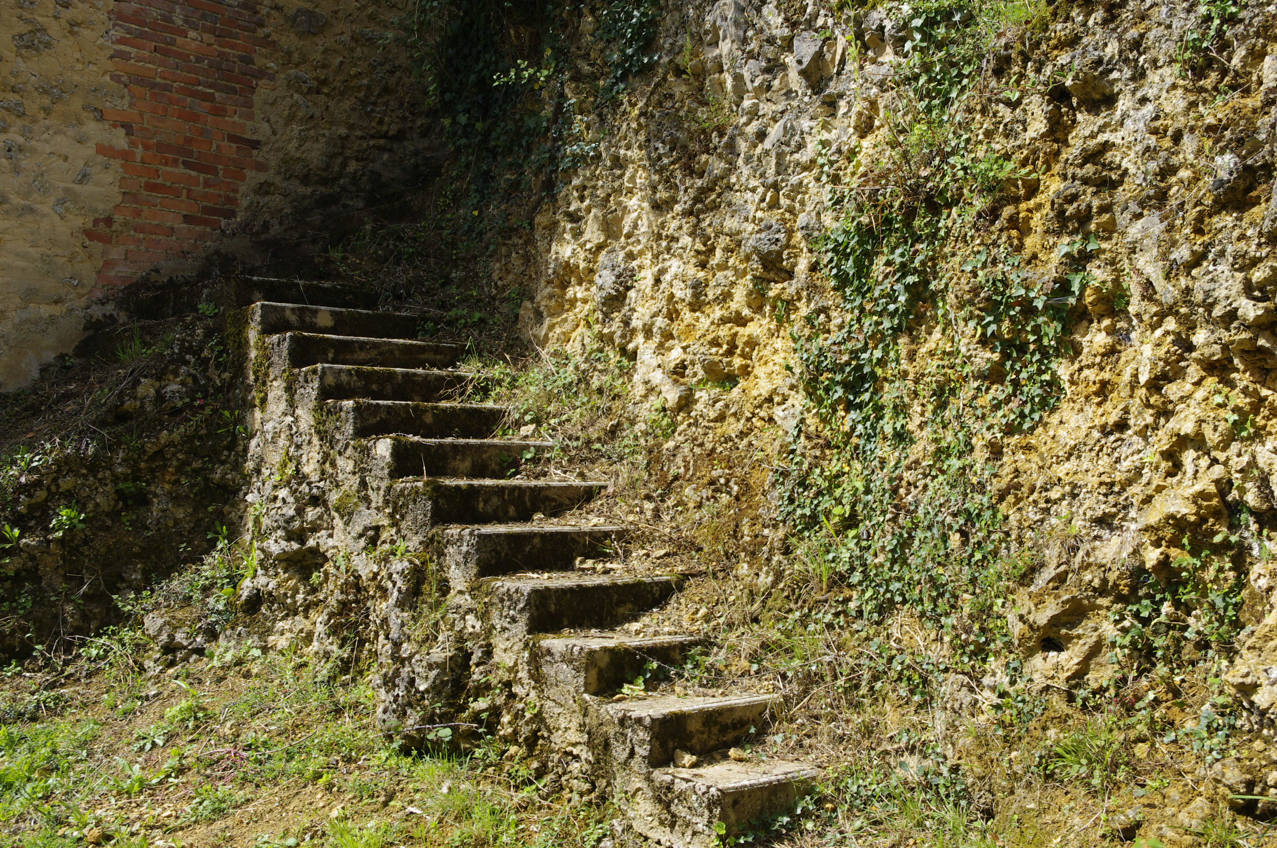 Teyjat, Dordogne, France